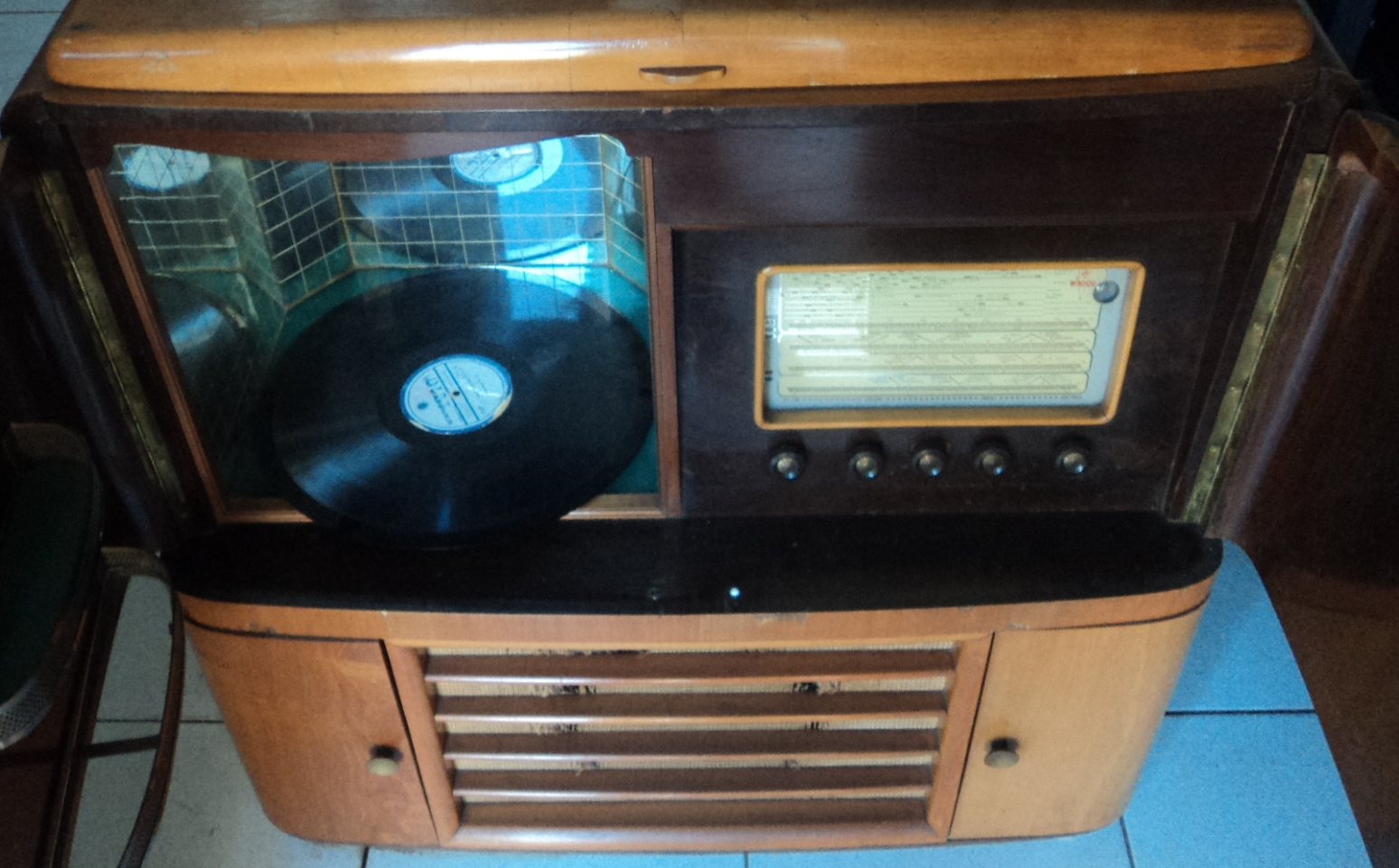 Radio-phonograph in MISB Collection